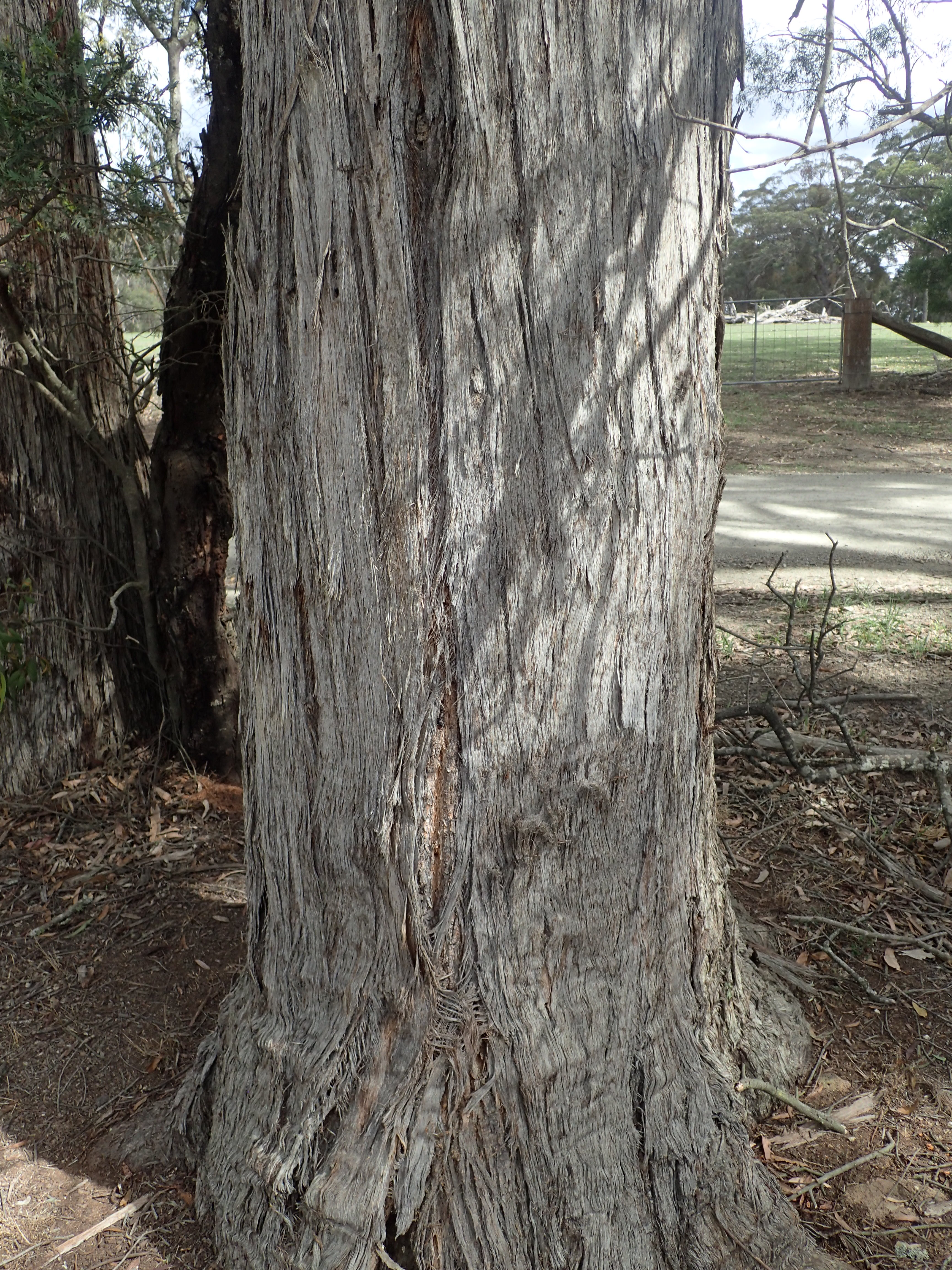 Bark of Eucalyptus cameronii grwoing near the Long Point Road, 9 km from Hillgrove